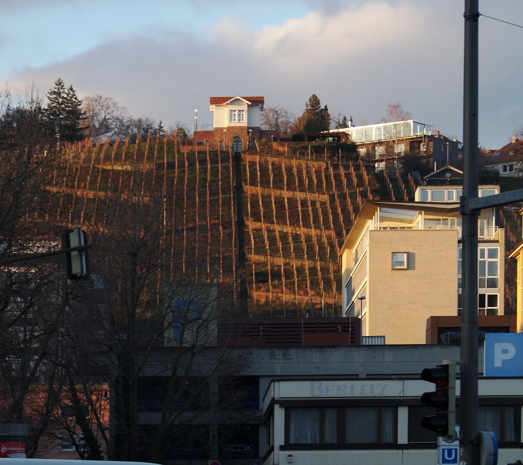 Vineyard in the city centre of Stuttgart, Germany